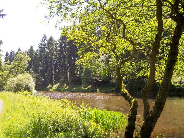 Largest Pond at Soudley